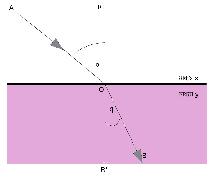 I made this picture in my PC.